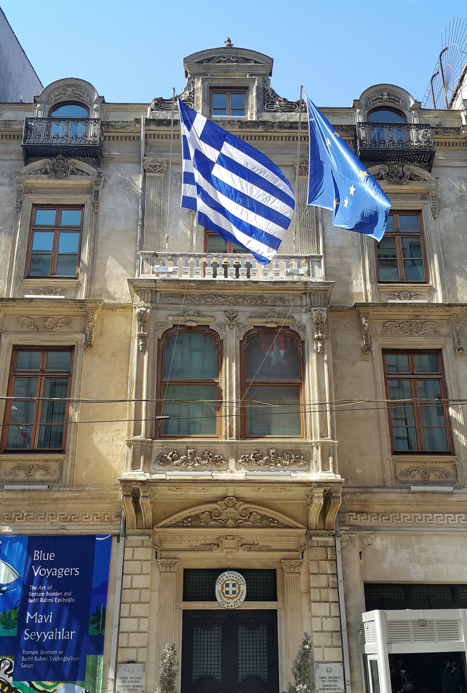 Consulate-General of Greece in Istiklal Avenue, Istanbul, Turkey.